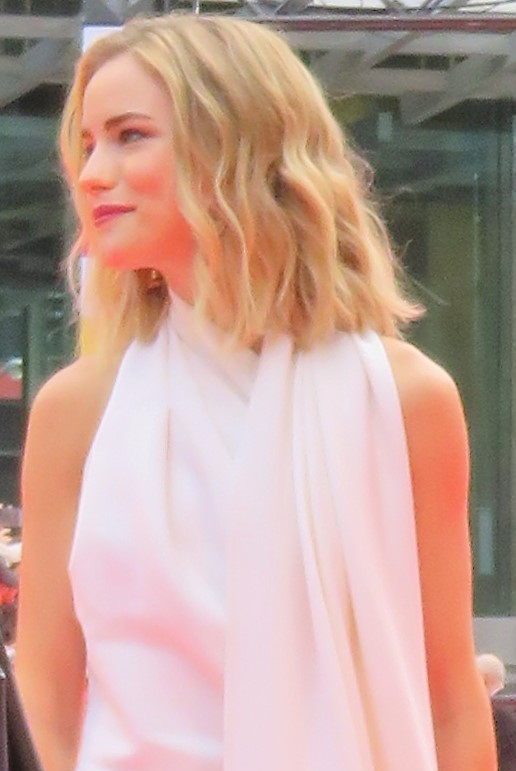 Willa Fitzgerald at the premiere of Goldfinch, 2019 Toronto Film Festival